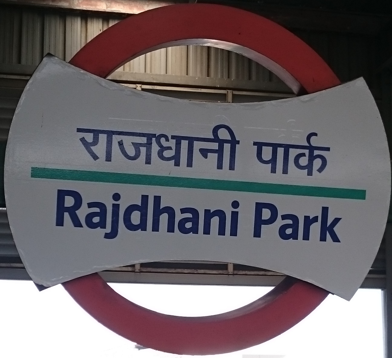 Rajdhani Park metro station sign board